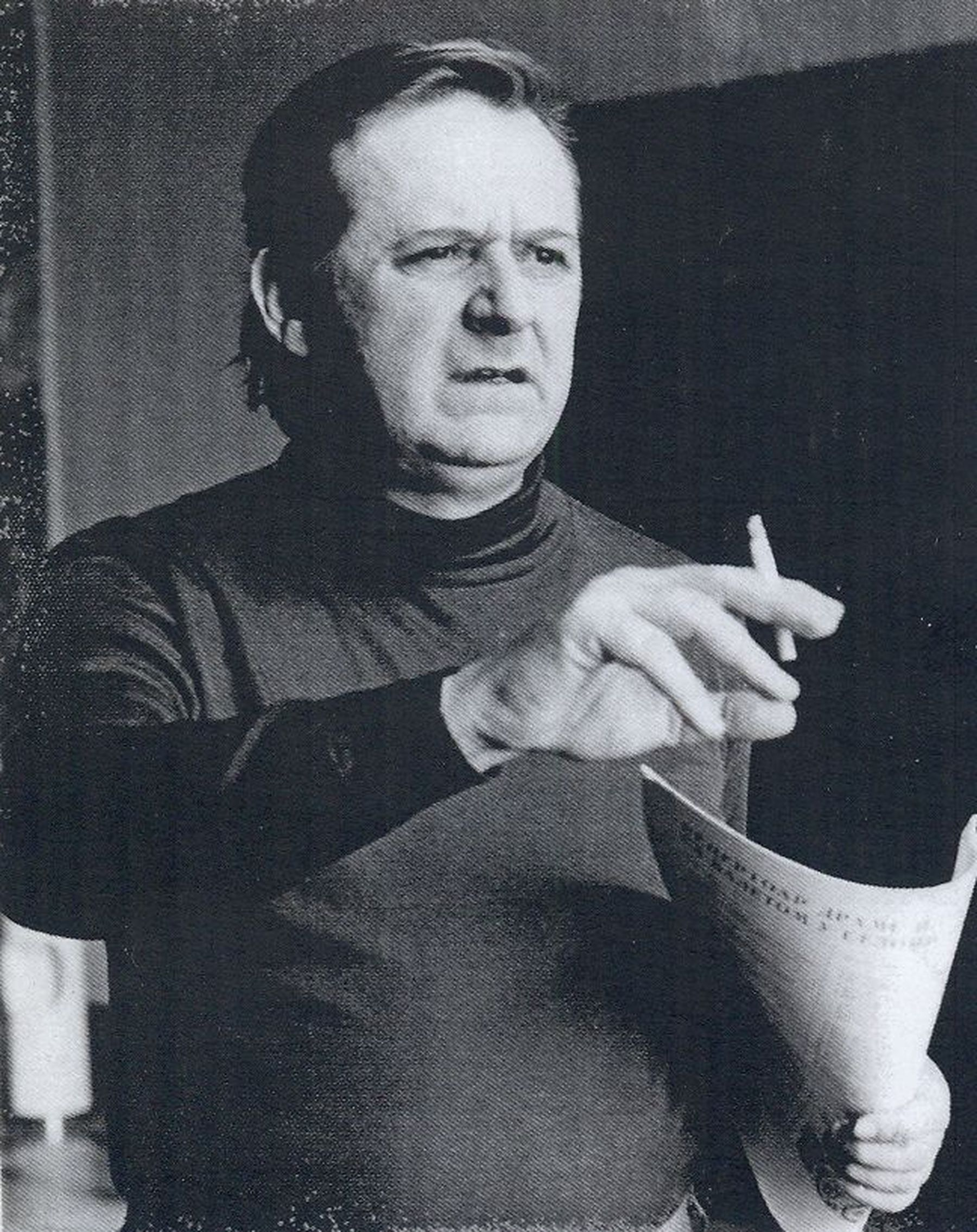 Milenko Maricic